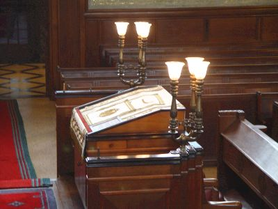 The Bima in the Synagogue of Enschede